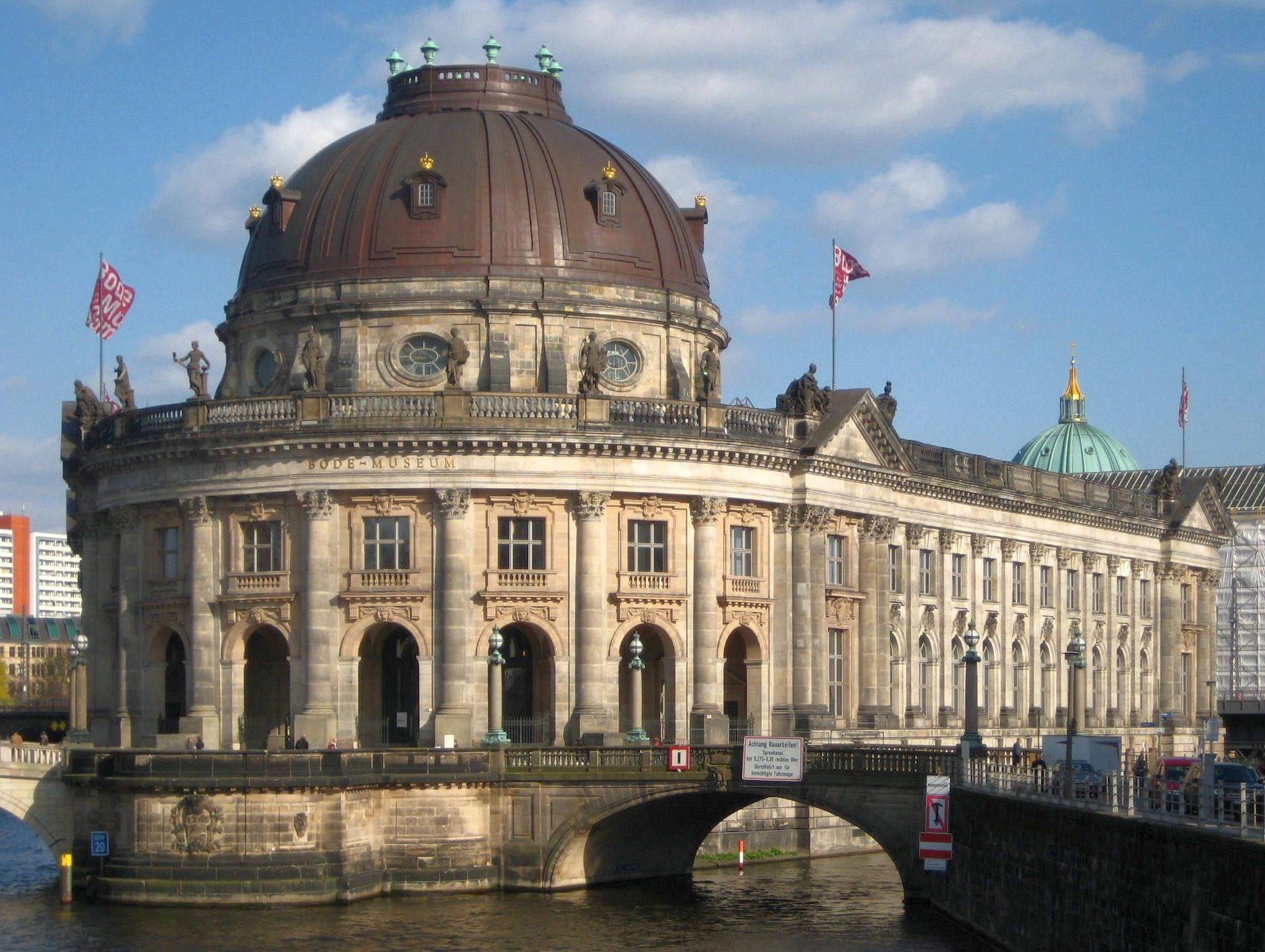 The Bode Museum on Museum Island in Berlin-Mitte. It was built from 1898 to 1904 to a design by Ernst von Ihne. The Bode Museum is part of the world heritage site Museum Island and is listed as a historic landmark.